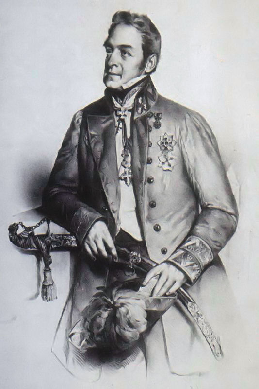 Ludwig Welden von Hartmann commander-in-chief